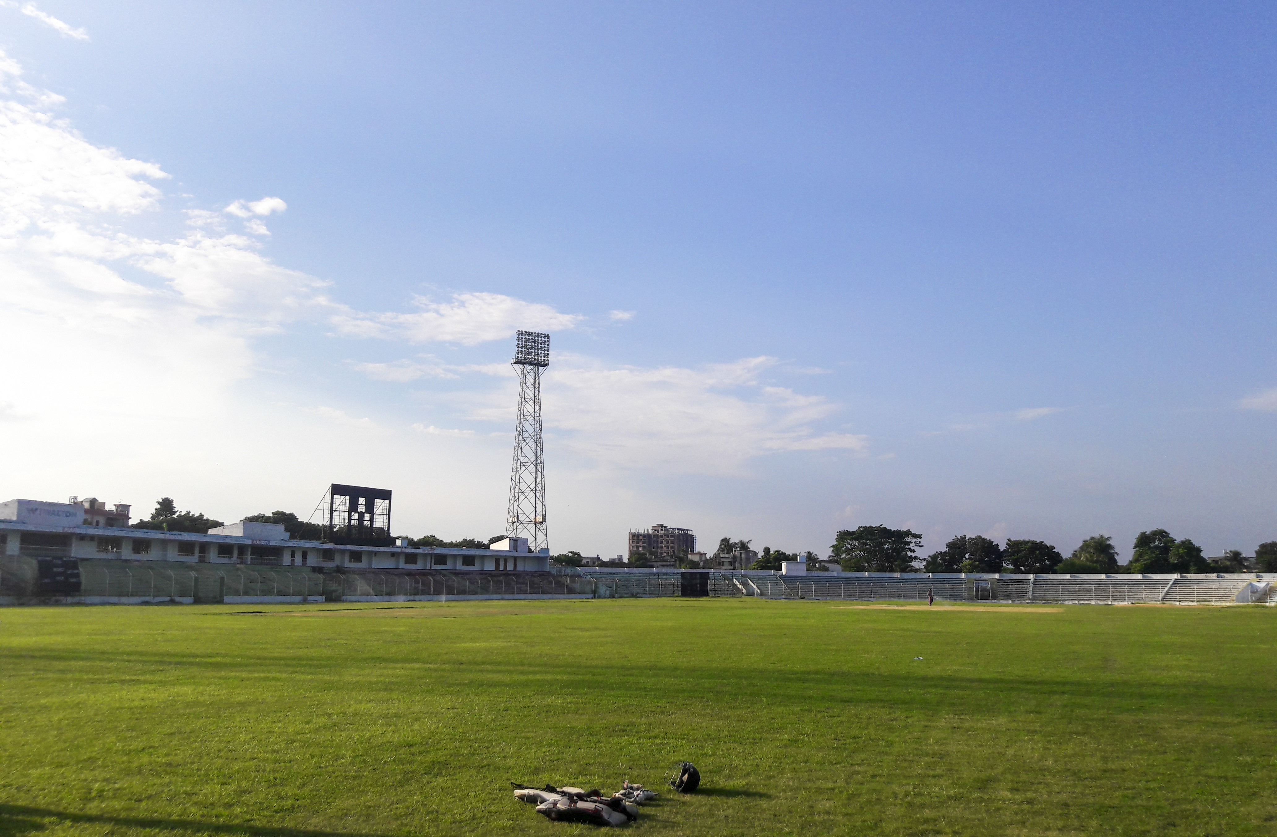 Shaheed A. H. M. Kamruzzaman Stadium, also called Rajshahi Divisional Stadium is a multi-use stadium in Rajshahi, Bangladesh. Shaheed A. H. M. Kamruzzaman Stadium is a multi-use stadium in Rajshahi, Bangladesh.